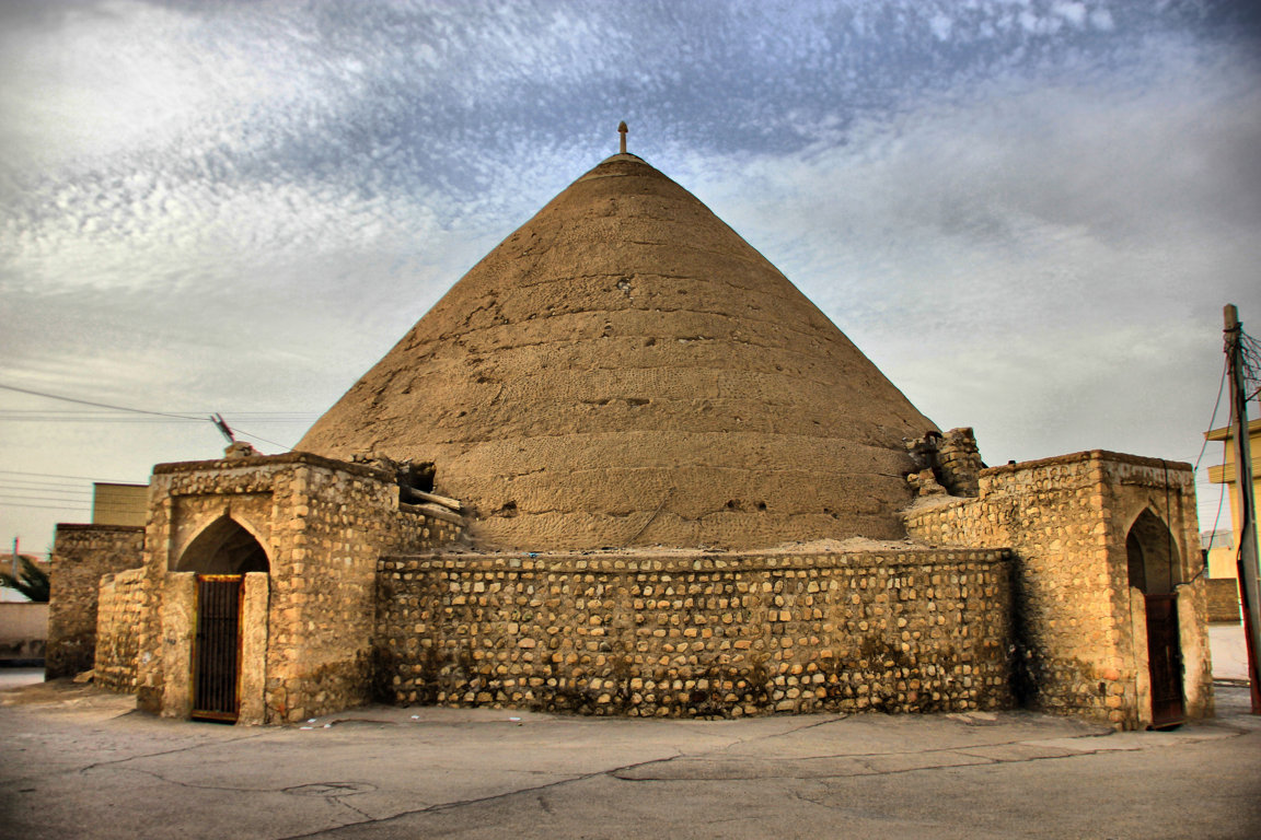 water placing in Gerash,South of Iran,برکه حاج اسدالله،گراش، آب انبار ثبت ملی ایران